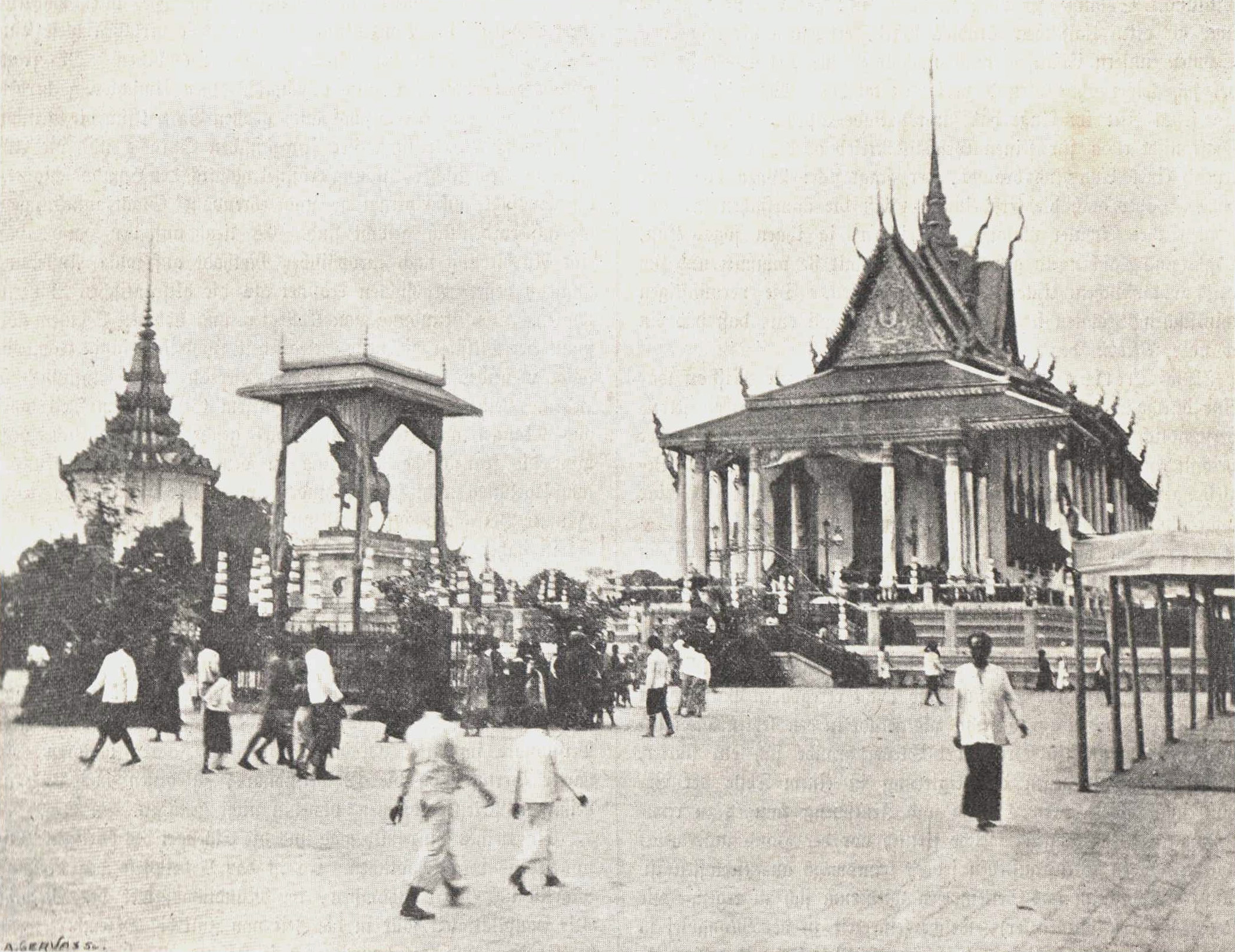 Picture from pagoda in Phnom Penh with statue of king Norodom on horse in year after his death 1904. From Catholic Missionary-monthly newspaper in September 1904. Norodom was king in Cambodia during French domination. After his death the capital is moved from Oudong to colonial Pnom Penh.